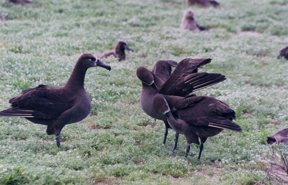 Dance of Black-footed Albatrosses at Midway Atoll. The image is a scan of an old print. The image was taken by Brocken Inaglory